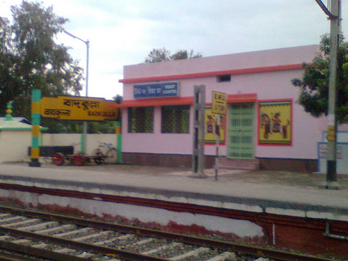 Badkulla Railway Station